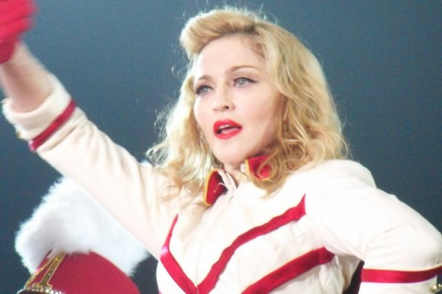 Madonna concert in Berline